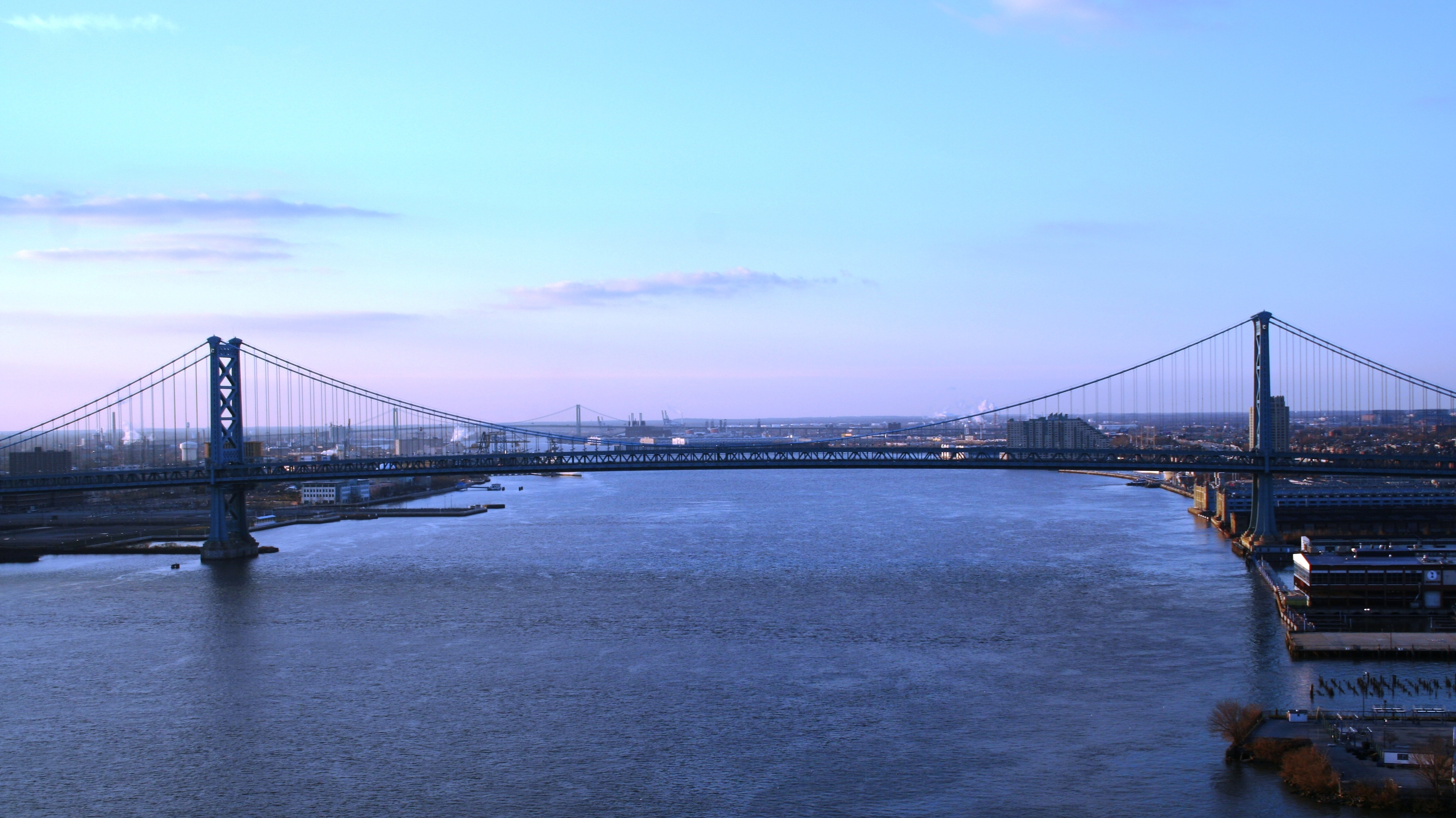 Benjamin Franklin Bridge linking Camden, NJ with Philadelphia, PA - Taken from the 22nd floor of Waterfront Square